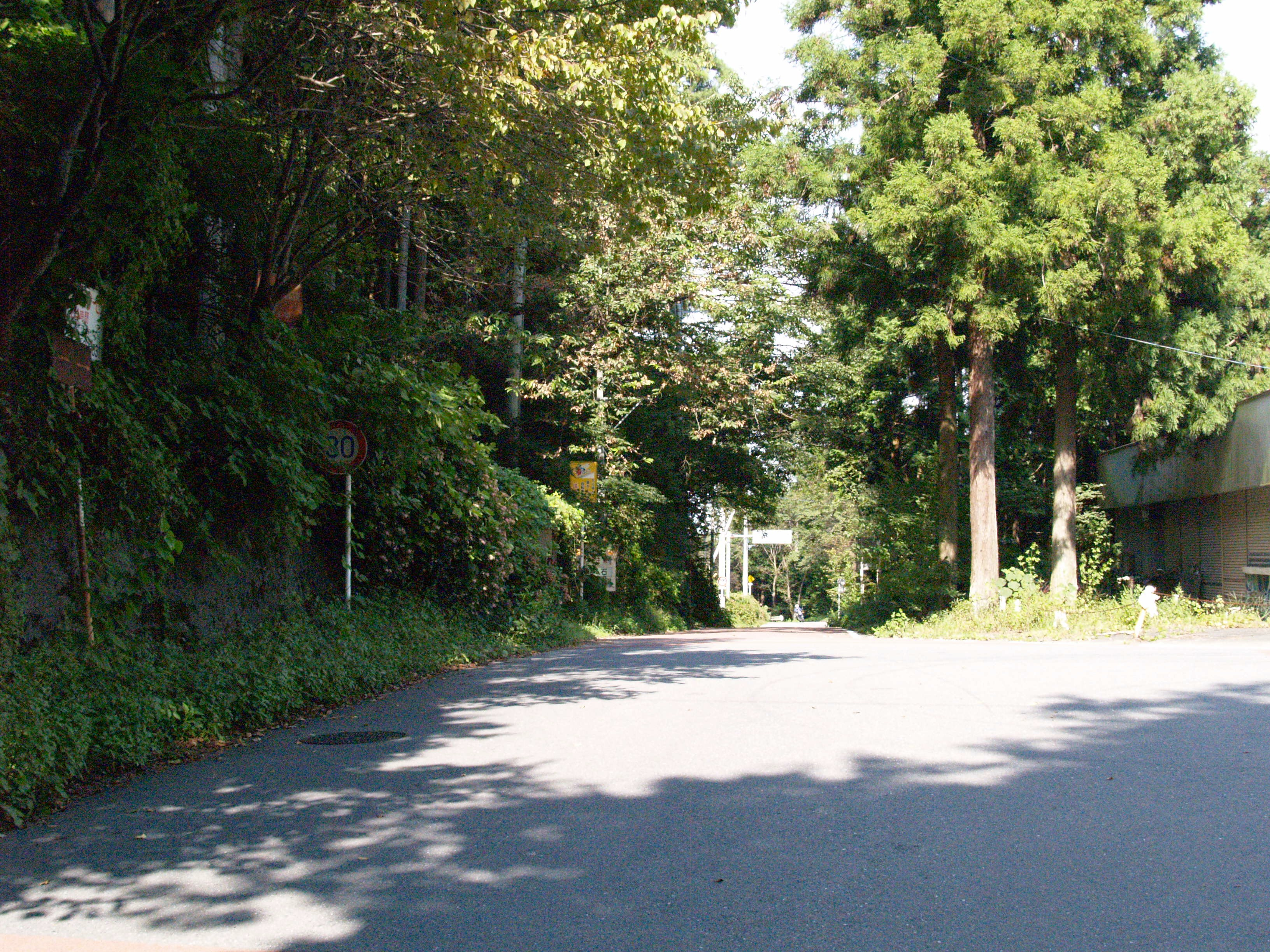 Sadamine Pass (Sadamine toge) on the Saitama Prefectural Road Route 11 on the border between Chichibu City and Higashichichibu Village